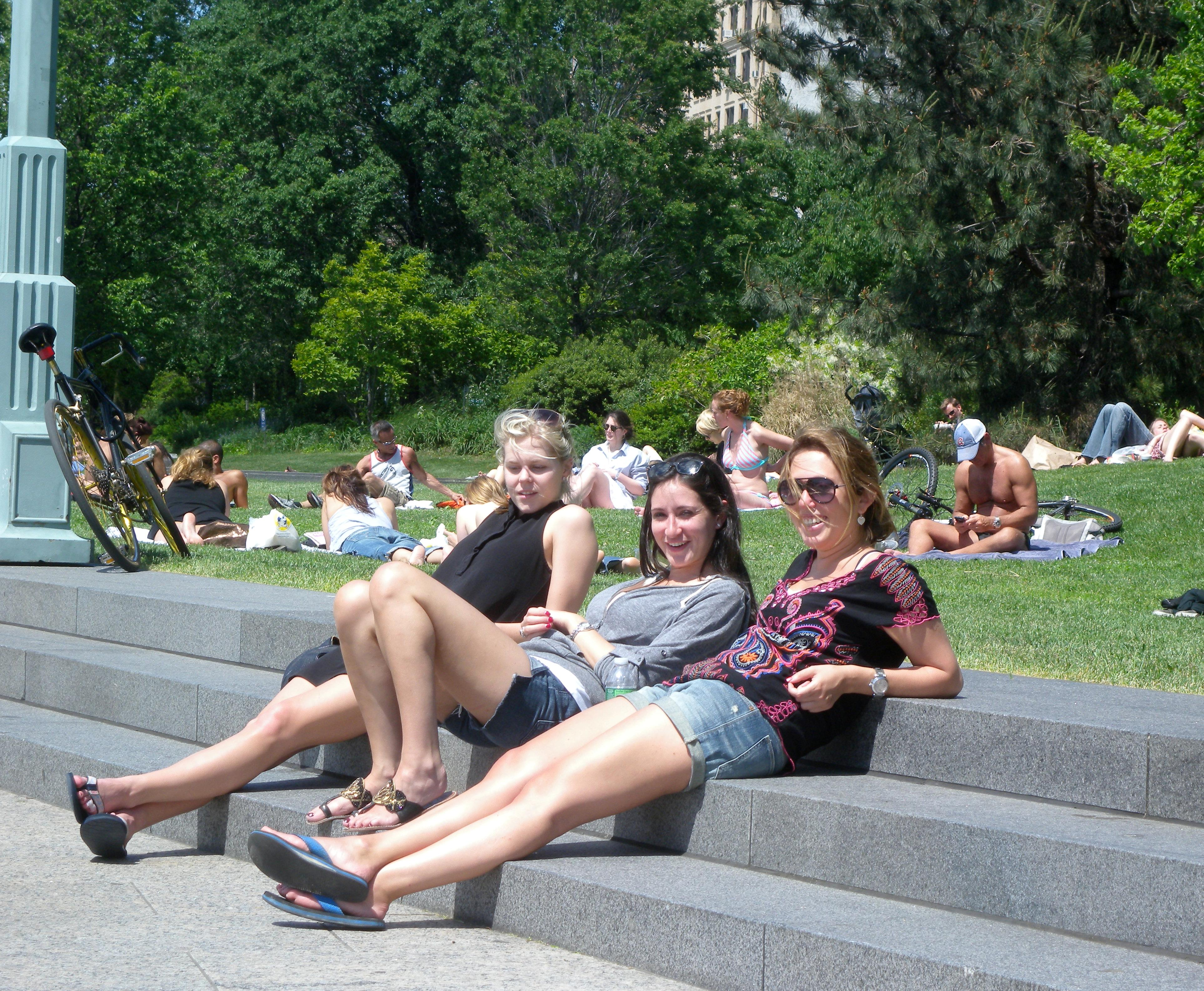 Looking north on sunbathers near Charles Street pier in Hudson River Park on a sunny afternoon. They made their permission conditional on the picture being intended for publishing in Wikipedia.